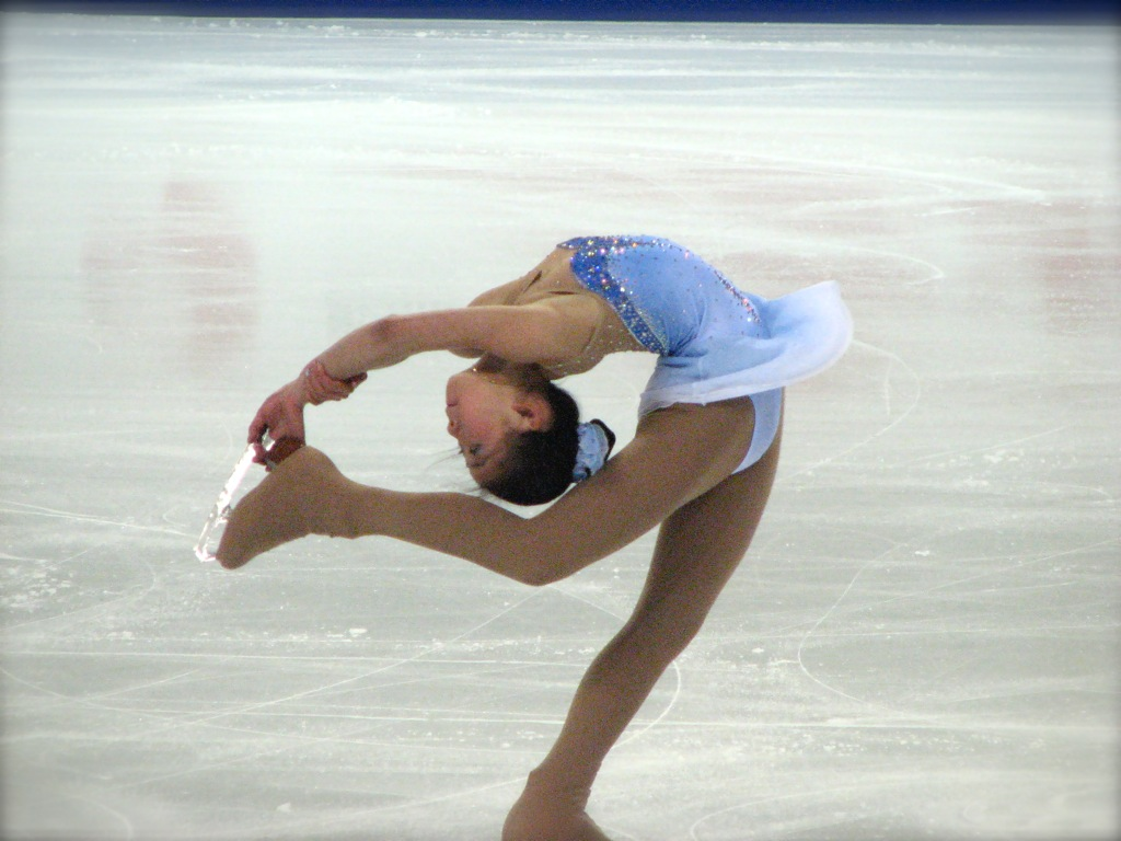 Photo of Caroline Zhang taken at the ISU Grand Prix Final in Turin, Long Program, 2007